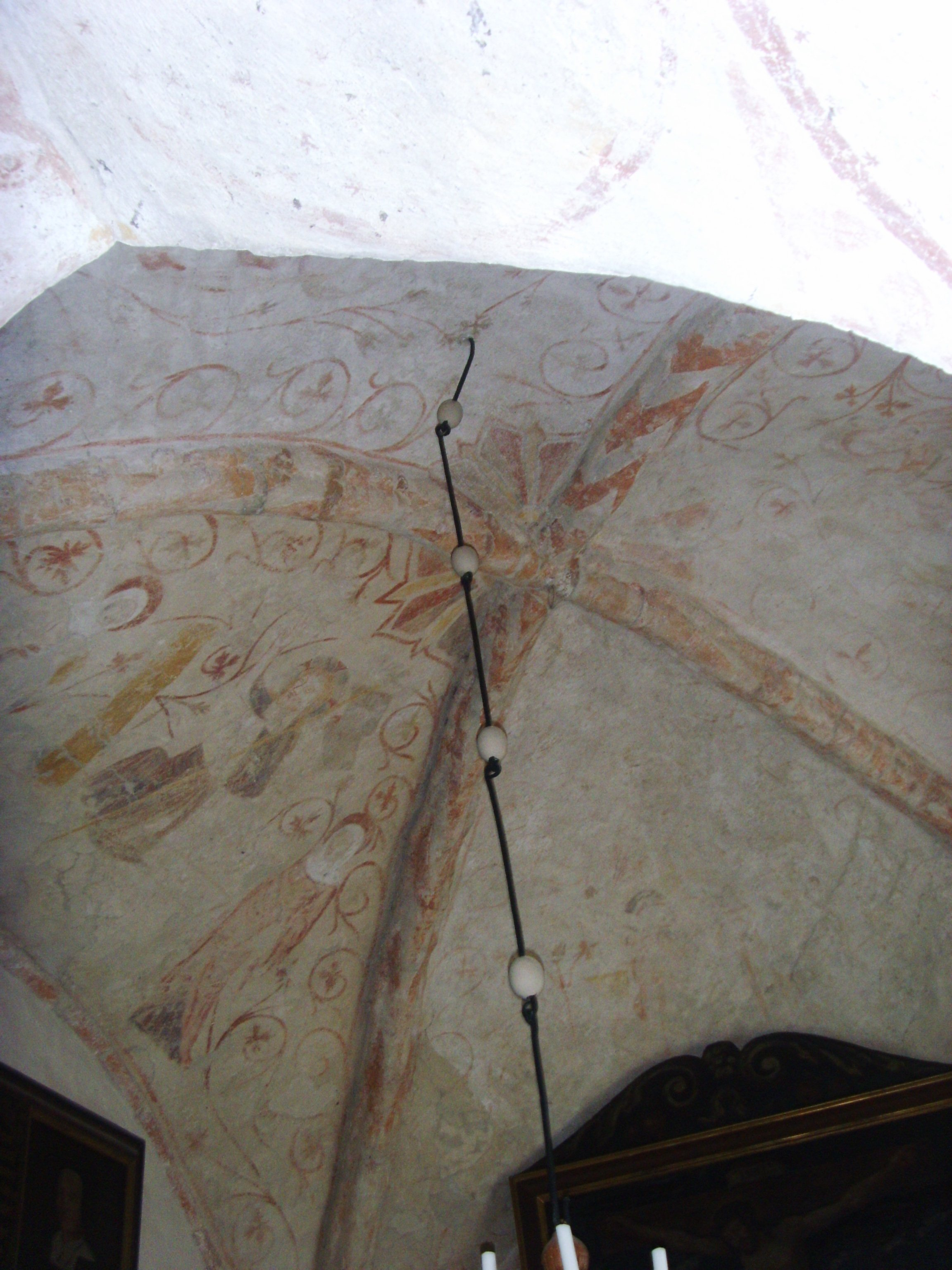 When the Orden of St Dominic came to Sweden 1237 they built a convention (monestery) in Skänninge and in the same time the first brickhouses in Sweden started to builts. The church in Järstad was probably the first church on the countryside with bricks, from around 1250. The summer 2008 they restored the church.